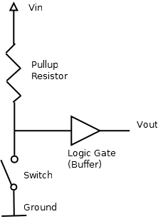 Shows a minimal pullup resistor circuit.